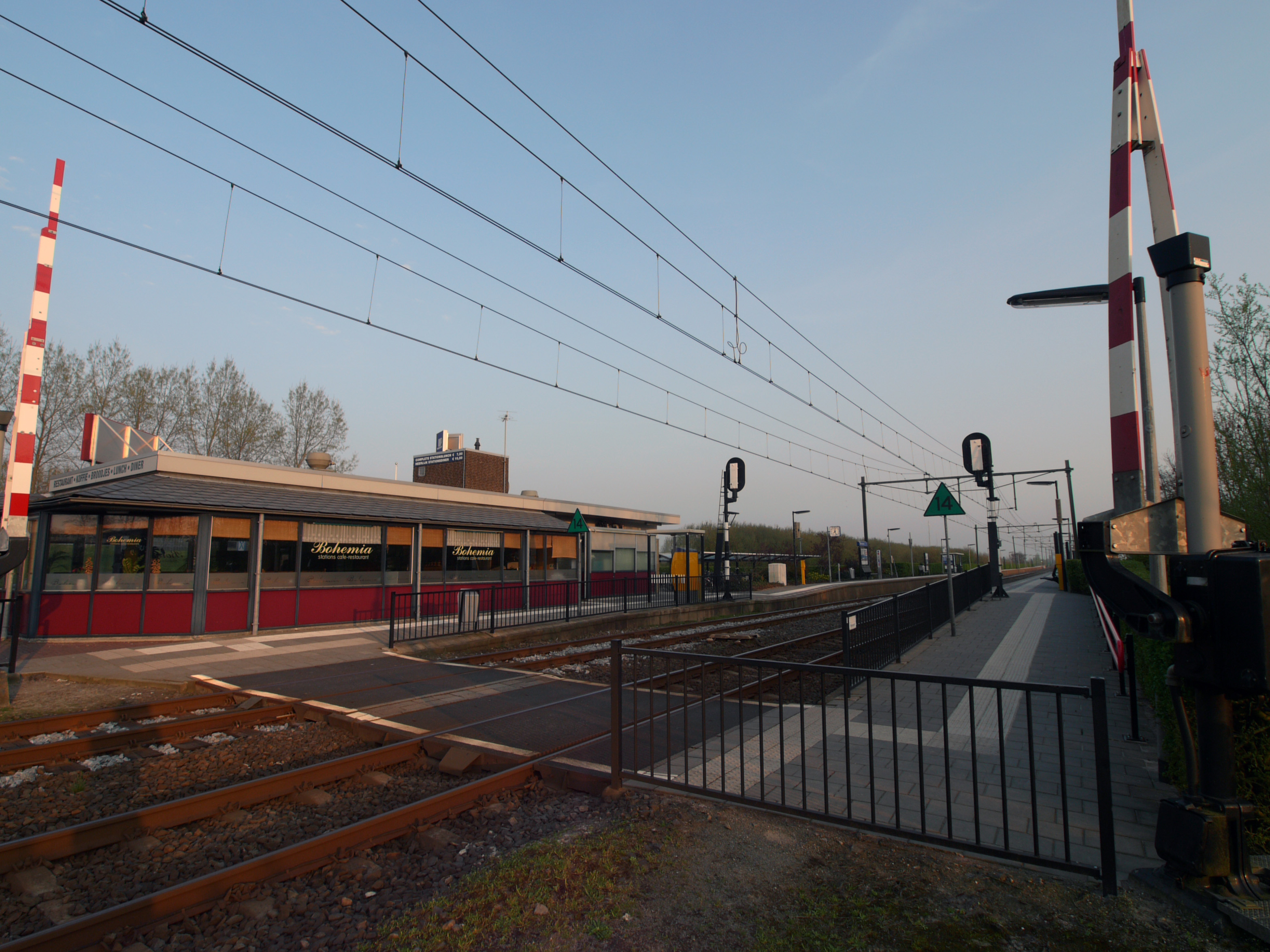 Railwaystation Grou